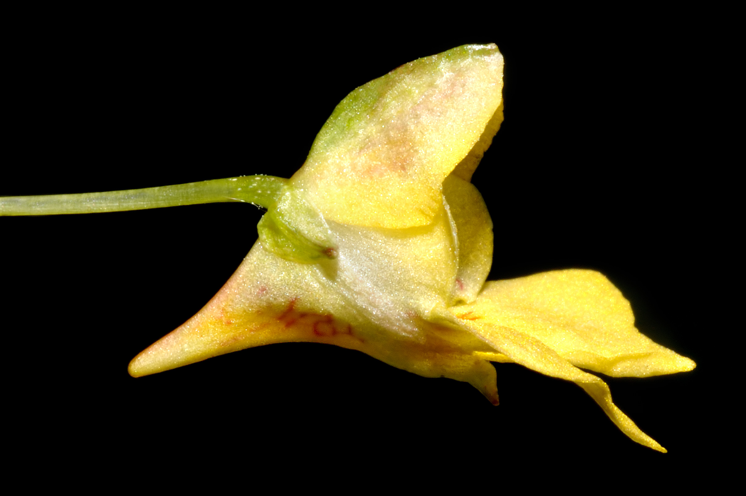 This image shows a Small balsam blossom close-up (Impatiens parviflora).